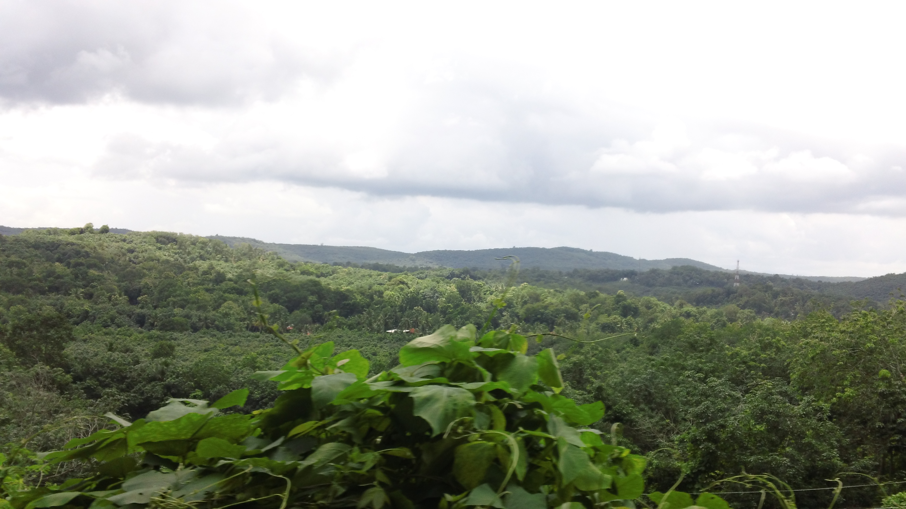 Chayalode